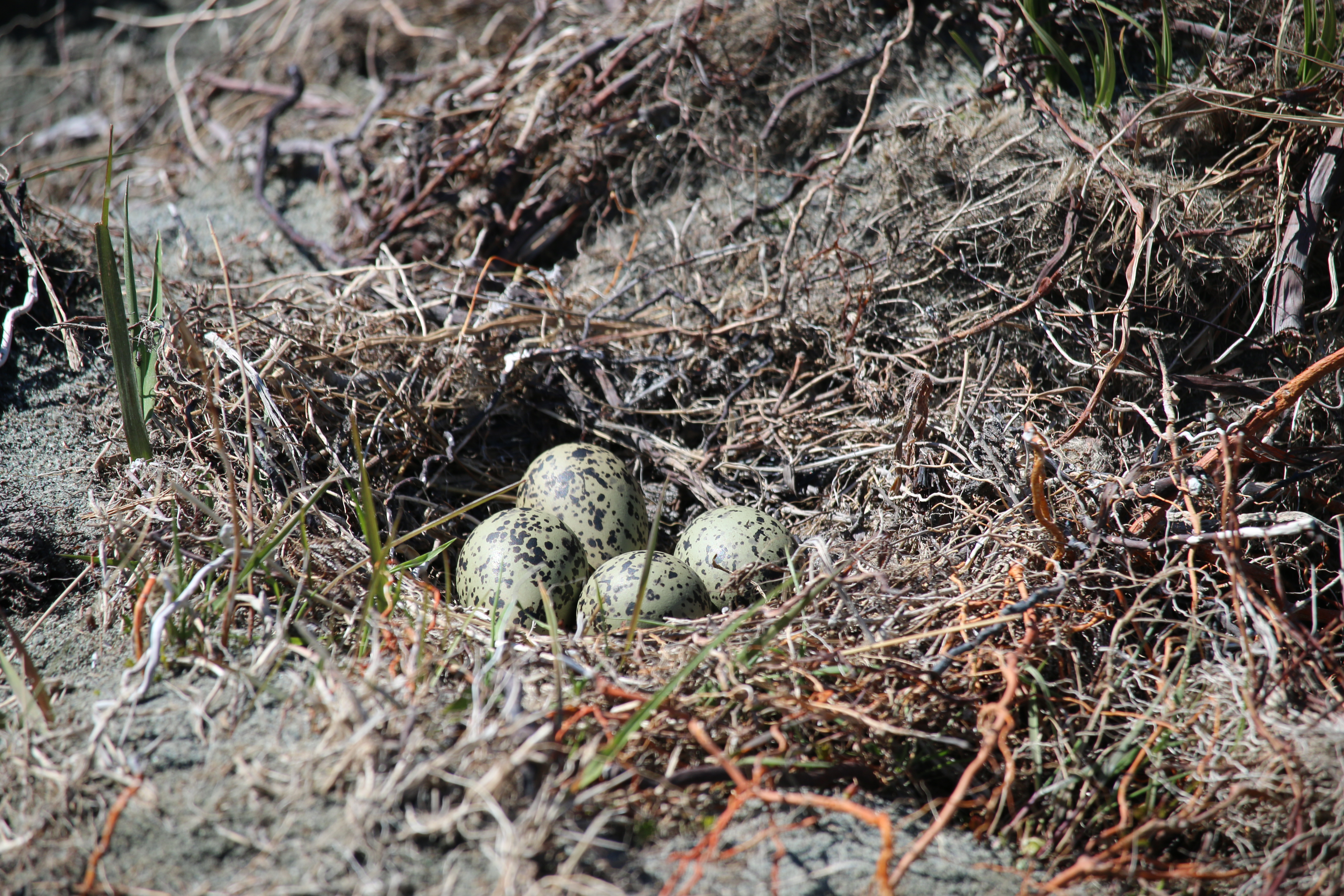 Kakī, black stilt, nest in the Godley River of New Zealand.